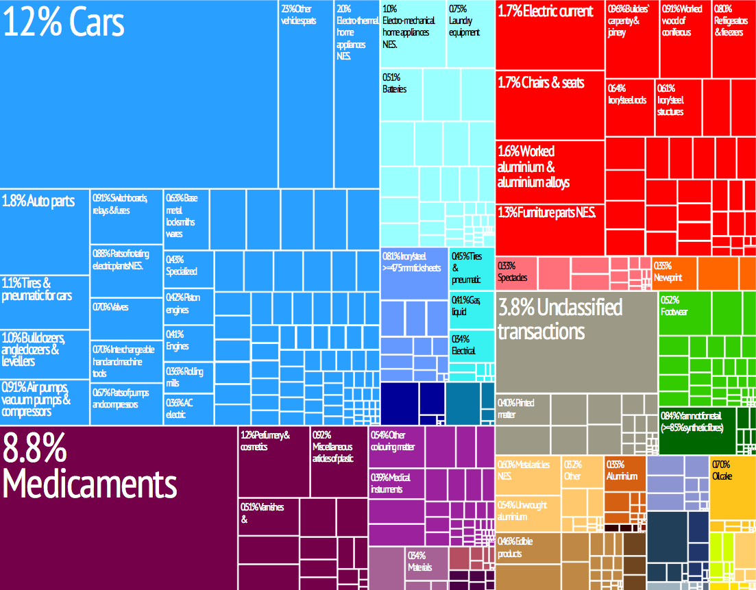 Export Trading Treemap. From MIT/Harvard Atlas of Economic Complexity